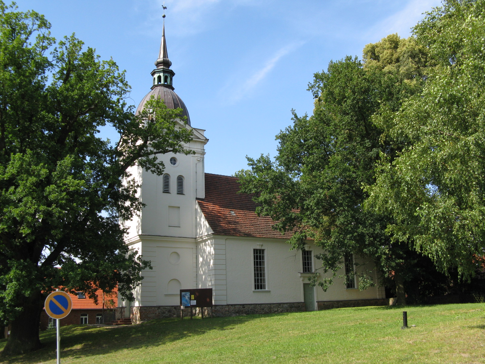 Church in Wredenhagen, disctrict Müritz, Mecklenburg-Vorpommern, Germany